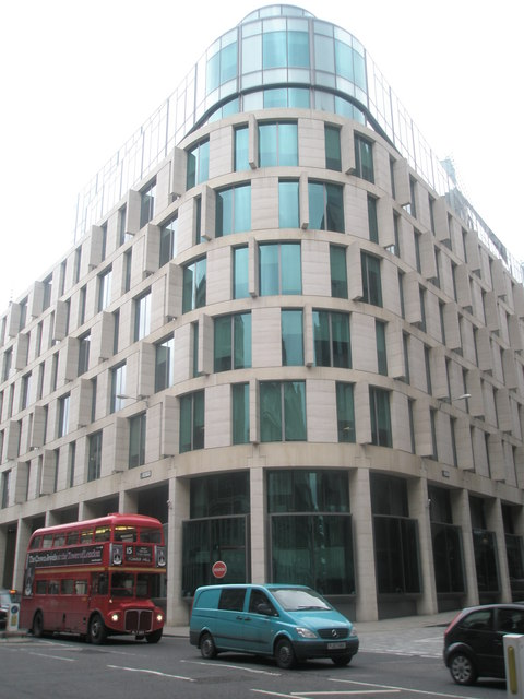 Splendid old routemaster in Great Tower Street